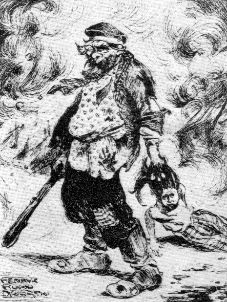 Printed caricature by painter Henryk Nowodworski, depicting pogrom białostocki of 1906. Note the assailant wearing a Tsarist army hat with a cockade sideways. Original caption is not a part of the scanning area.